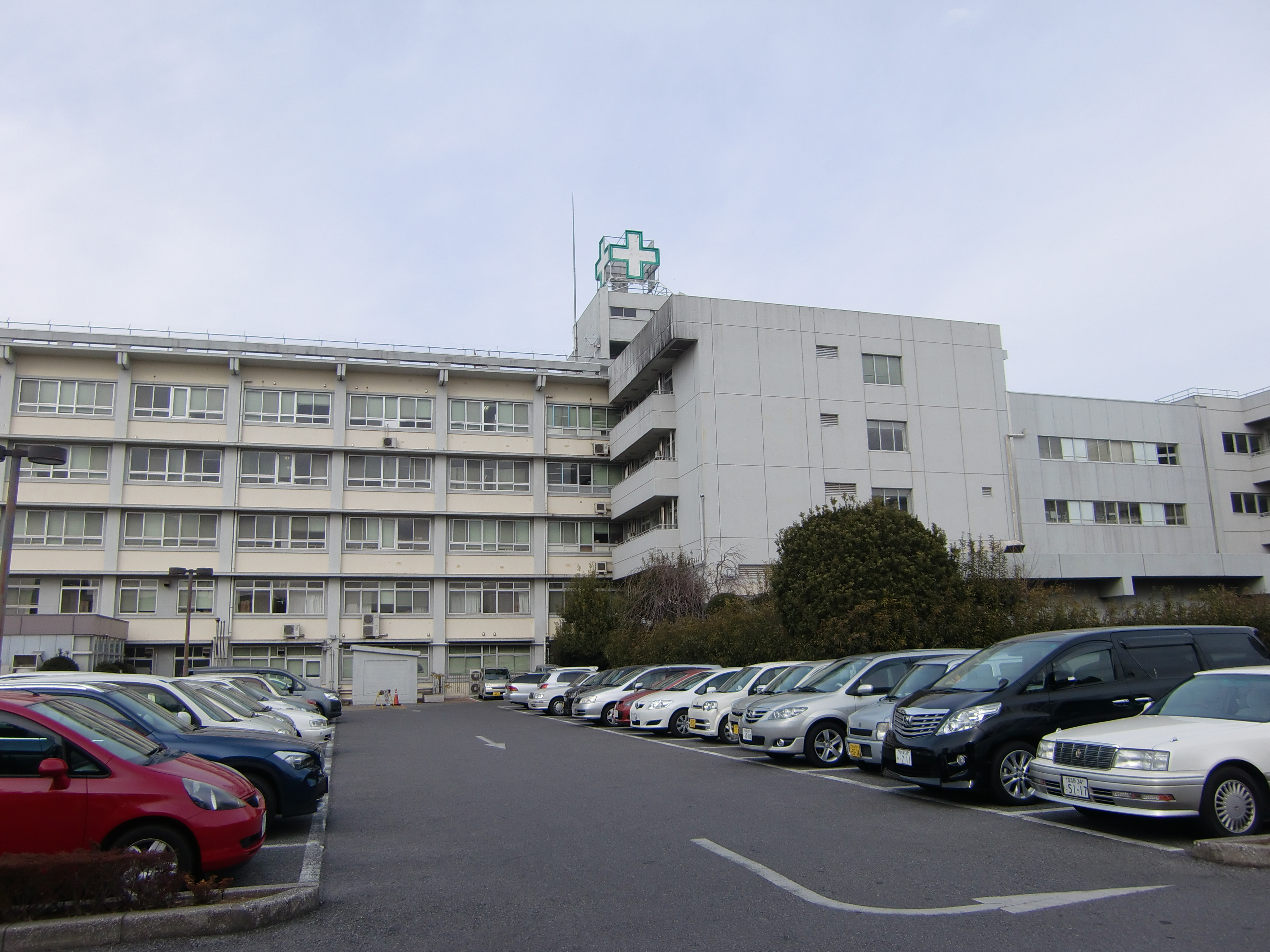 Chiba Rosai Hospital